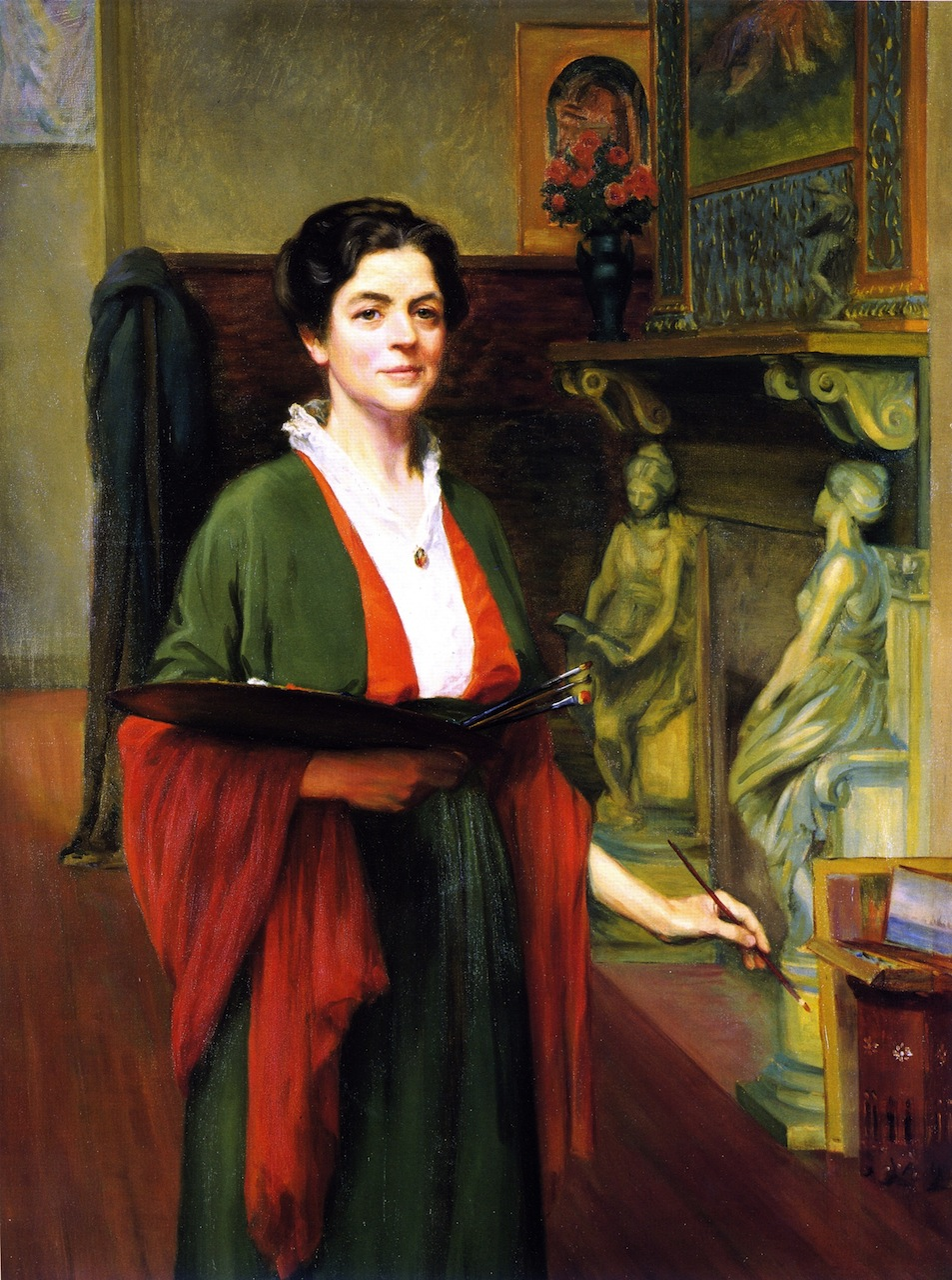 Margaret Lesley Bush-Brown, Selfportrait